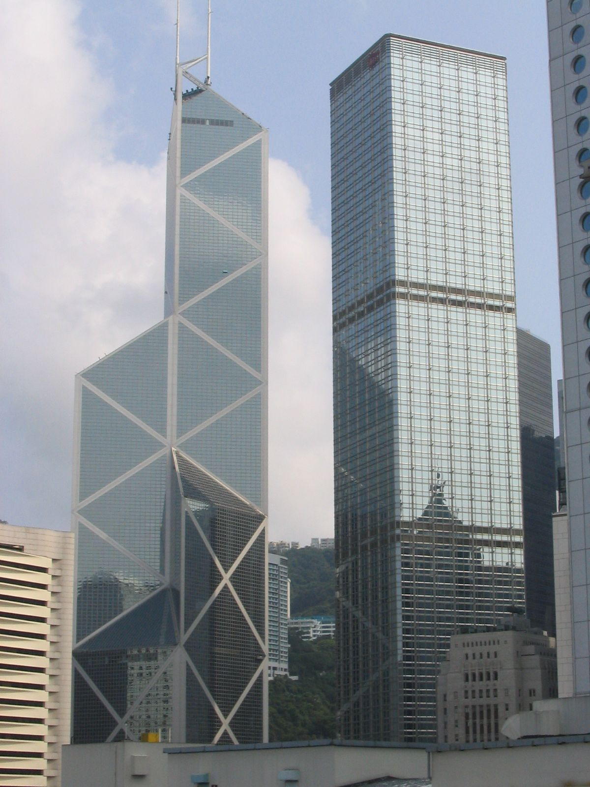 中銀大廈 (左)及zh:長江集團中心 Bank of China Tower & Cheung Kong Center